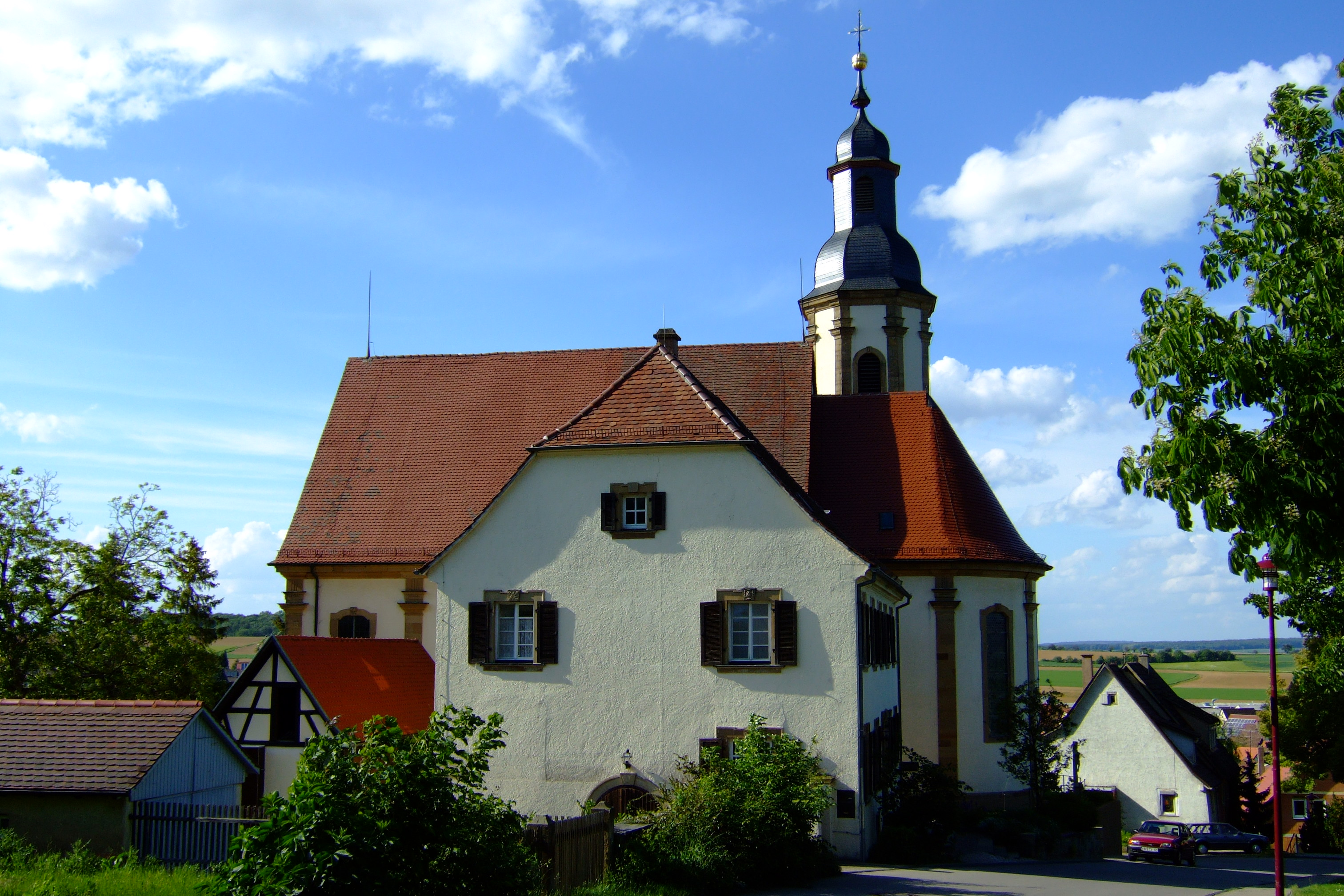 Old Church "St. Remigius" with vicarage of the Village Neckarsulm-Dahenfeld (built: 1748) view from North